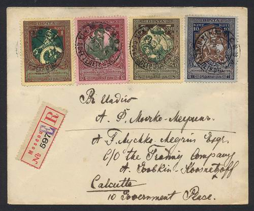 Cover of Russia